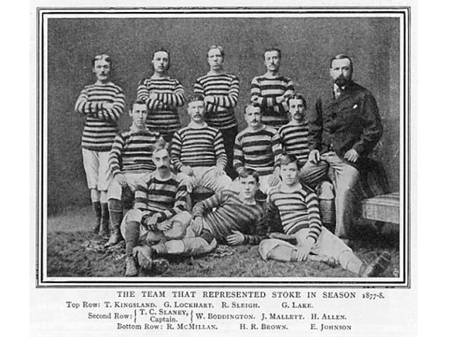 An earlier Stoke City FC squad.